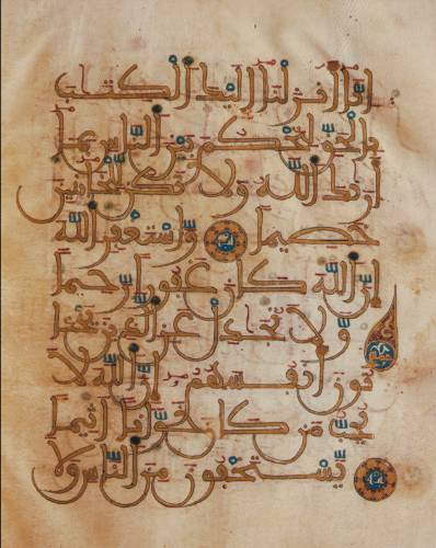 Qur'anic Manuscript. Chapter IV, The Women (al-Nisa). 13th - 14th Century. Maghribi Script. Location: The Chester Beatty Library.